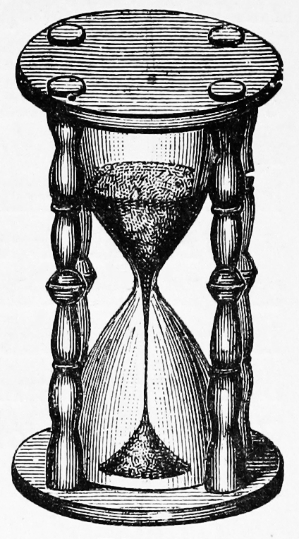 "Tidens naturlære" 1903 af Poul la Cour, Fig. 11. Timeglasset. Bogen findes digitalt på Tidens Naturlære "Tidens naturlære" (Nature of time) 1903 by Poul la Cour, Ill. 11. Hourglass. The book is digitized at Tidens Naturlære